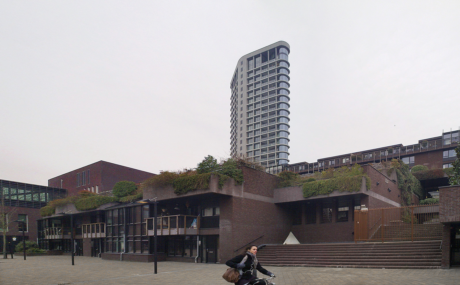 More architecture. This housing block is by Neave Brown, who became controversial in England with his stepped housing.The master plan for the area is by Jo Coenen, whose tower is in the back. More picures of the tower are a few pages down (search Woontoren). 99-03.